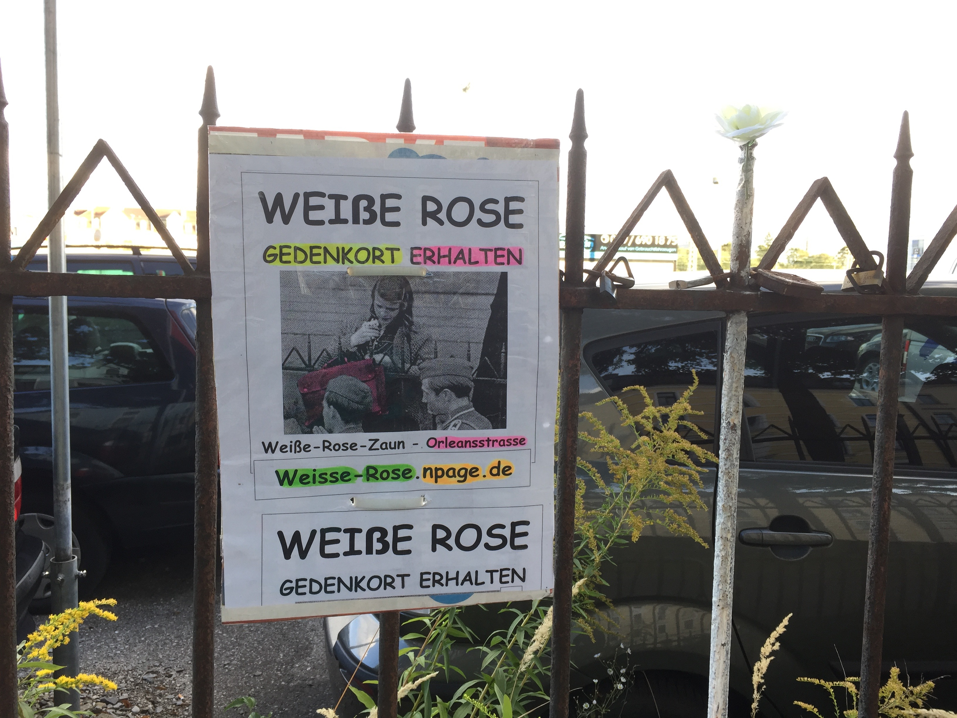 The Fence - famous from the fotos with members of the "Weiße Rose" at Railway station Munich East (dating 23. 7.1942) still exists.